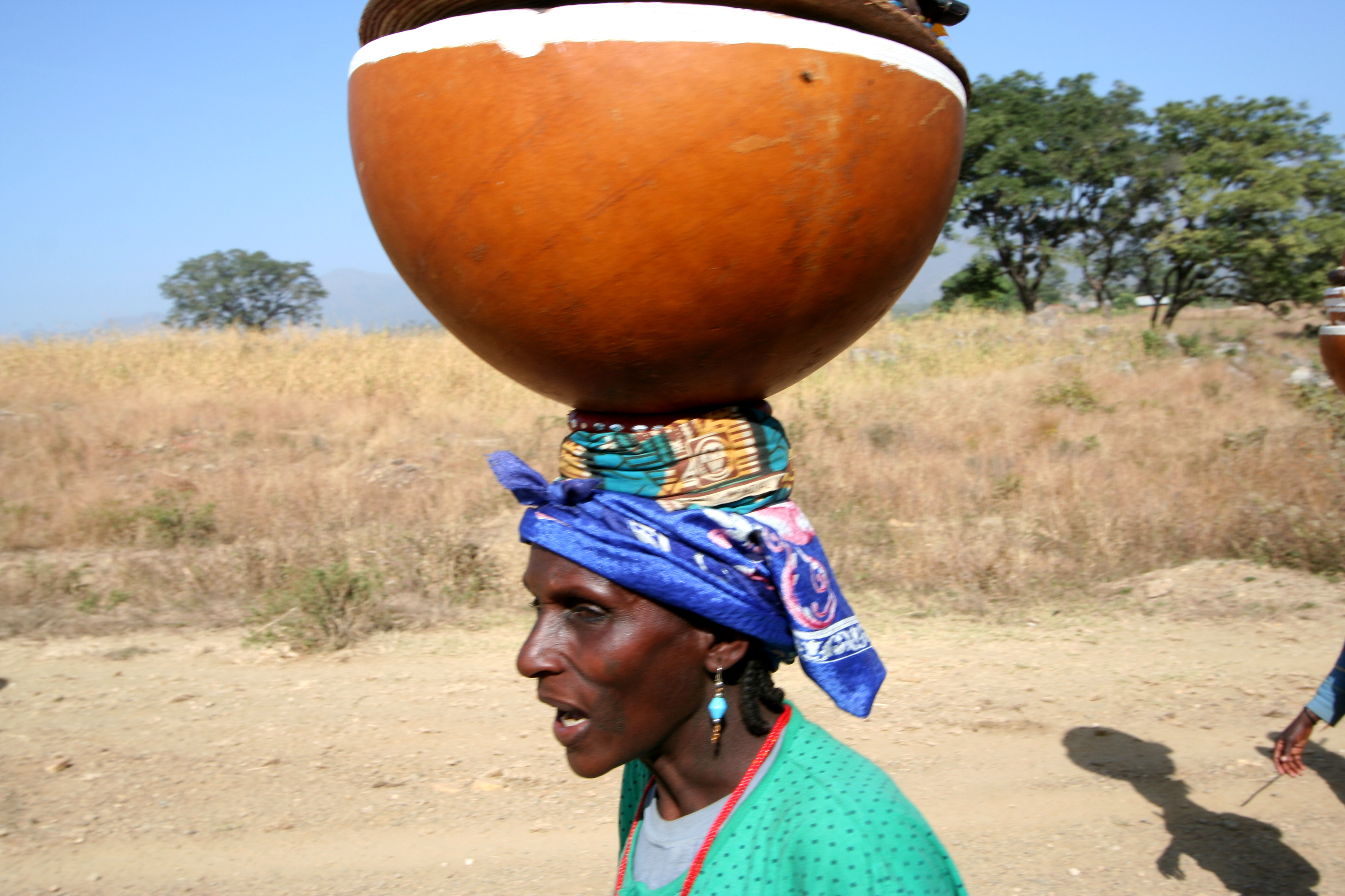 Fula people, Islam, ethnic groups of West Africa